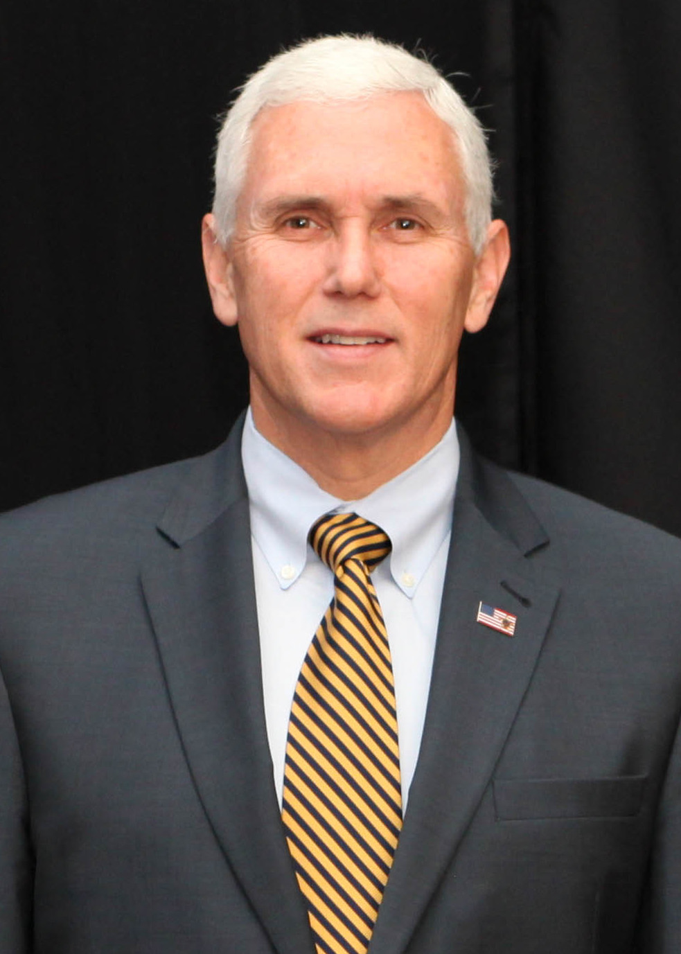 Geist resident Billie Dragoo, Governor Mike Pence, First Lady Karen Pence and Lt. Governor Susan Elispermann along with Deborah Collins Stephens (not pictured) pose before the start of the inaugural conference begins